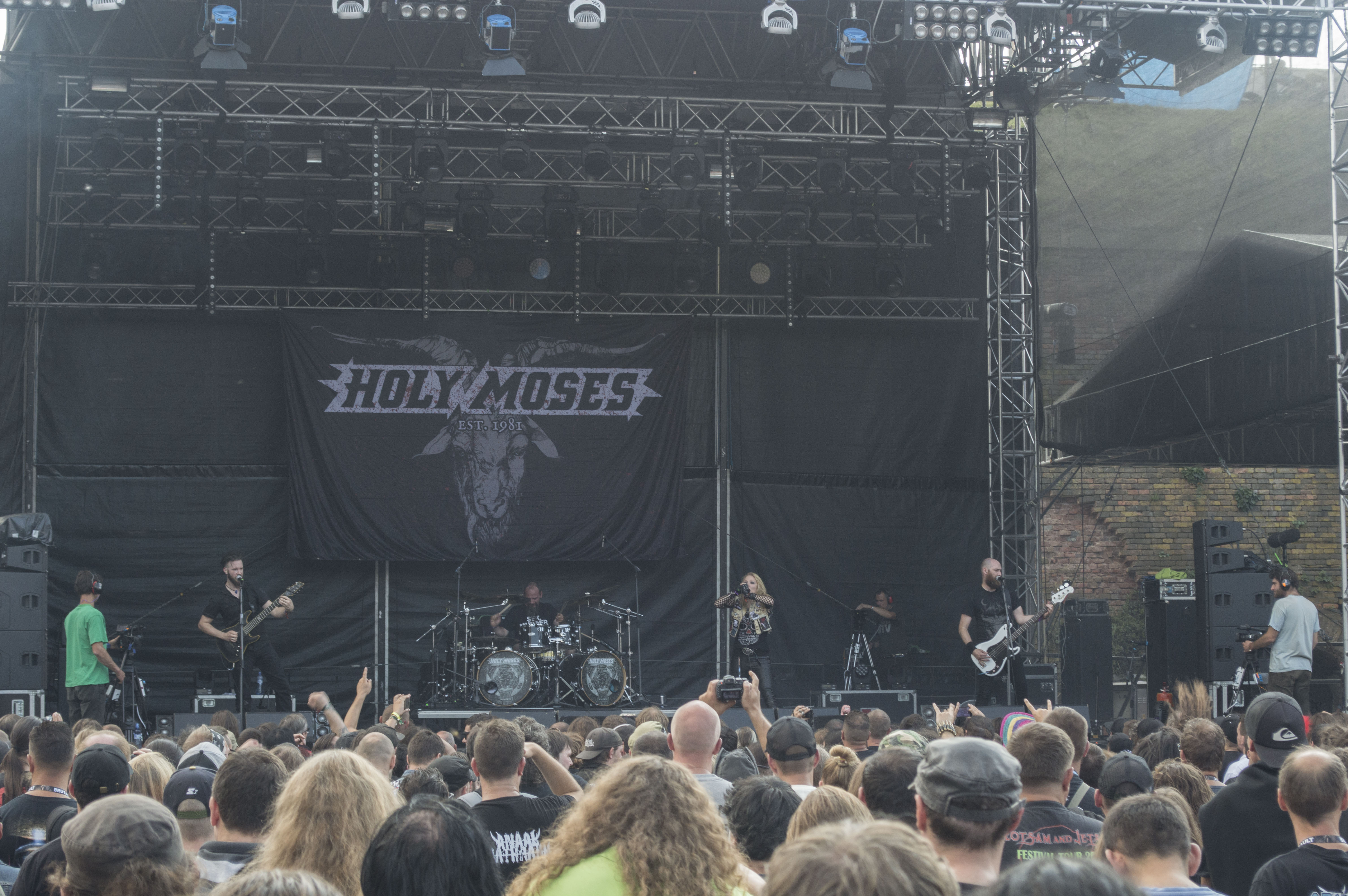 Metal festival Brutal Assault in Josefov, Czech republic.